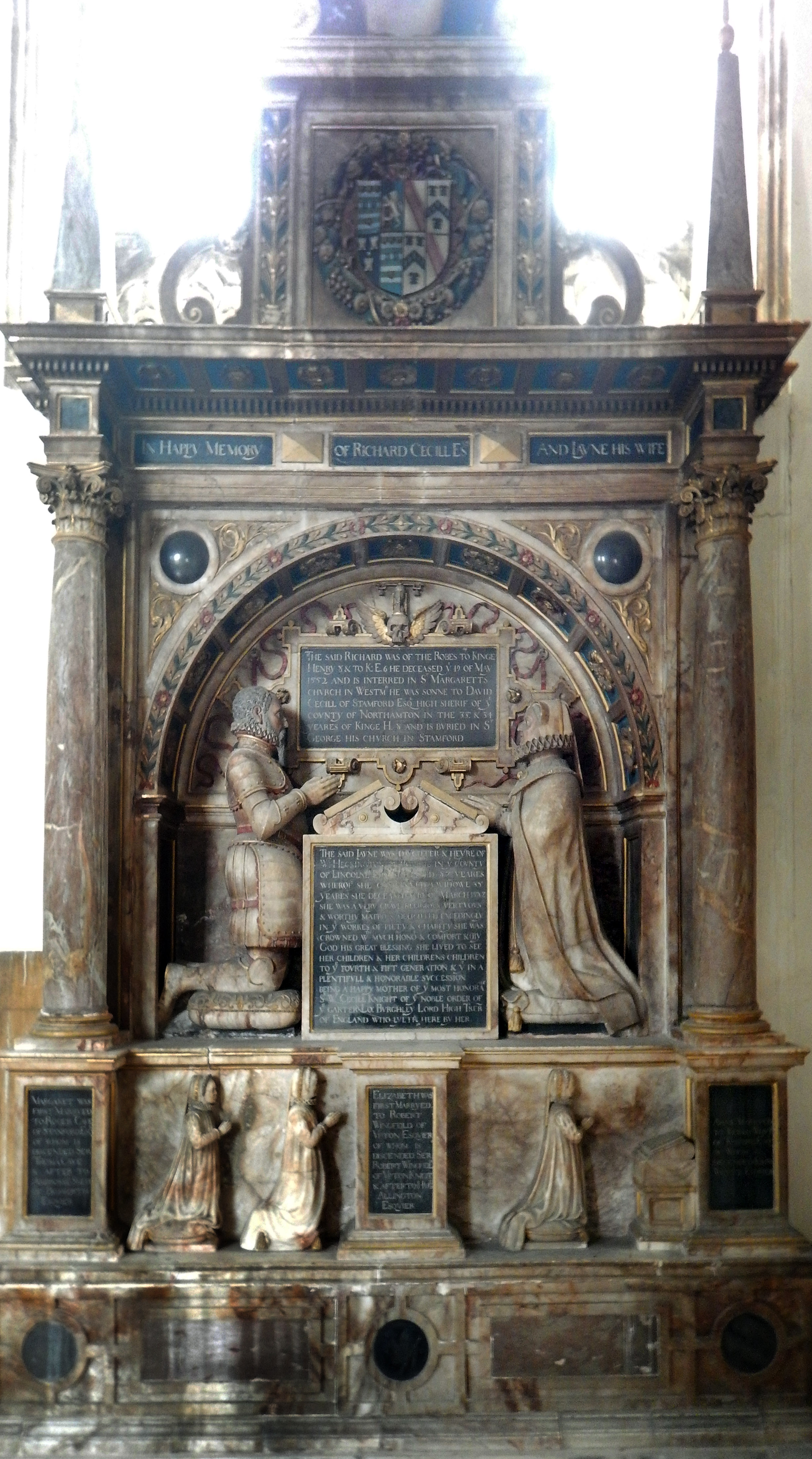 Monument to Richard & Jane Cecil, St Martin's church, Stamford Richard Cecil (d. 1553) was father to William Cecil, whose Monument is nearby. He married Jane Heckington (d, 1587, aged 87) around 1519, and they had one son, William, and three daughters, Anne, Elizabeth, and Margaret. Richard rose through the ranks to become Groom of the Robes, Sheriff of Rutland and other positions. Him and his wife are kneeling at a prayer desk, with his daughters as weepers below. The coat of Arms above incorporates arms of Cecil quartering Winston, Heckinton, Walcot and Caerleon, showing his Welsh roots. St Martin's church, Stamford The church today dates from the late 15th century, although it replaced an earlier building. It is thought that the original church was ruined after the sack of the town in 1461. However, other churches were little damaged, so a more likely reason is that it was neglected by the nuns who owned it at the time. The present church was built in the 1480s. He married Jane Heckington, daughter and heiress of William Heckington of Bourne, Lincolnshire. Arms of Heckington or Ekington. On a bend three cinquefoils ( 'Monumental Heraldry in Dorset', in An Inventory of the Historical Monuments in Dorset, Volume 5, East (London, 1975), pp. 121-129. [1]